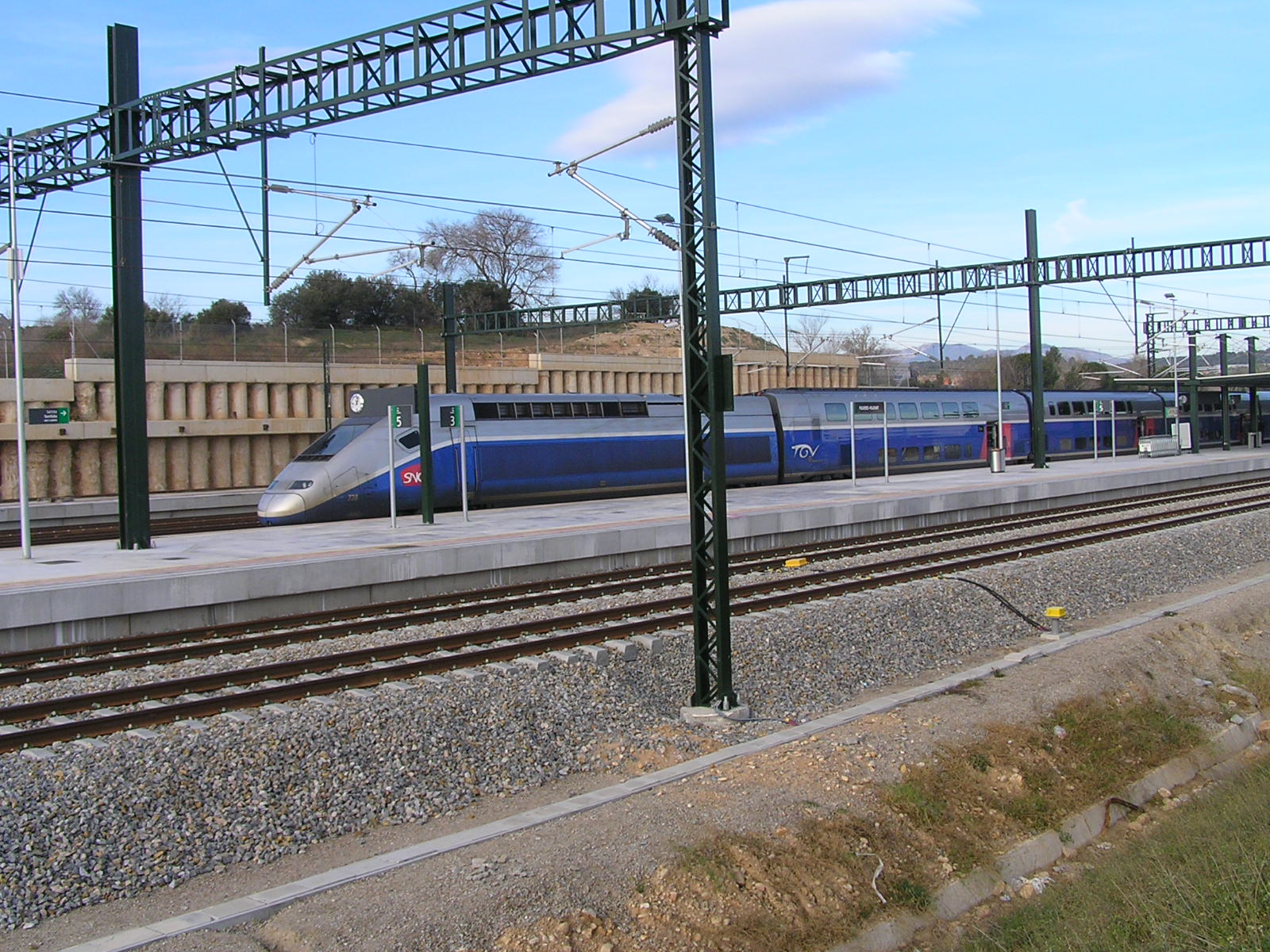 First service TGV to arrive at Figueres-Vilafant along the LGV Perpignan–Figueres from Paris. Stopped at platform 3. The onward (gauge-changing) train to Barcelona arrives on platform 5 (nearest to camera).